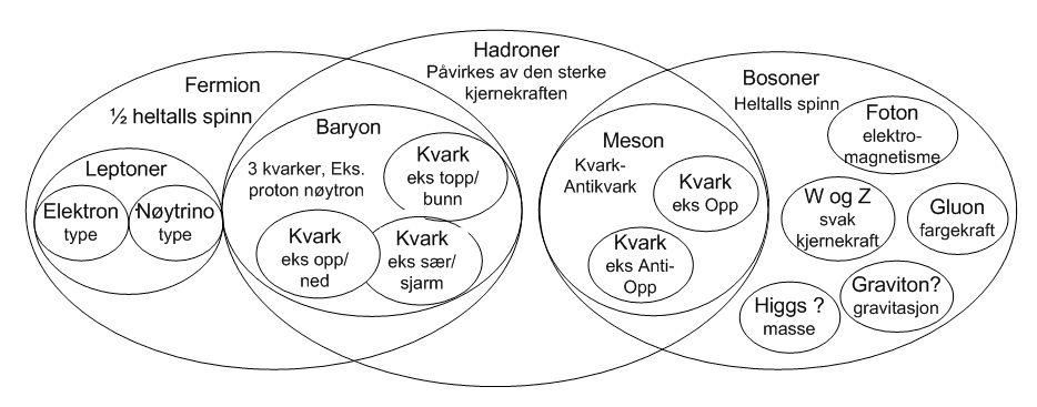 Particles in the standard model